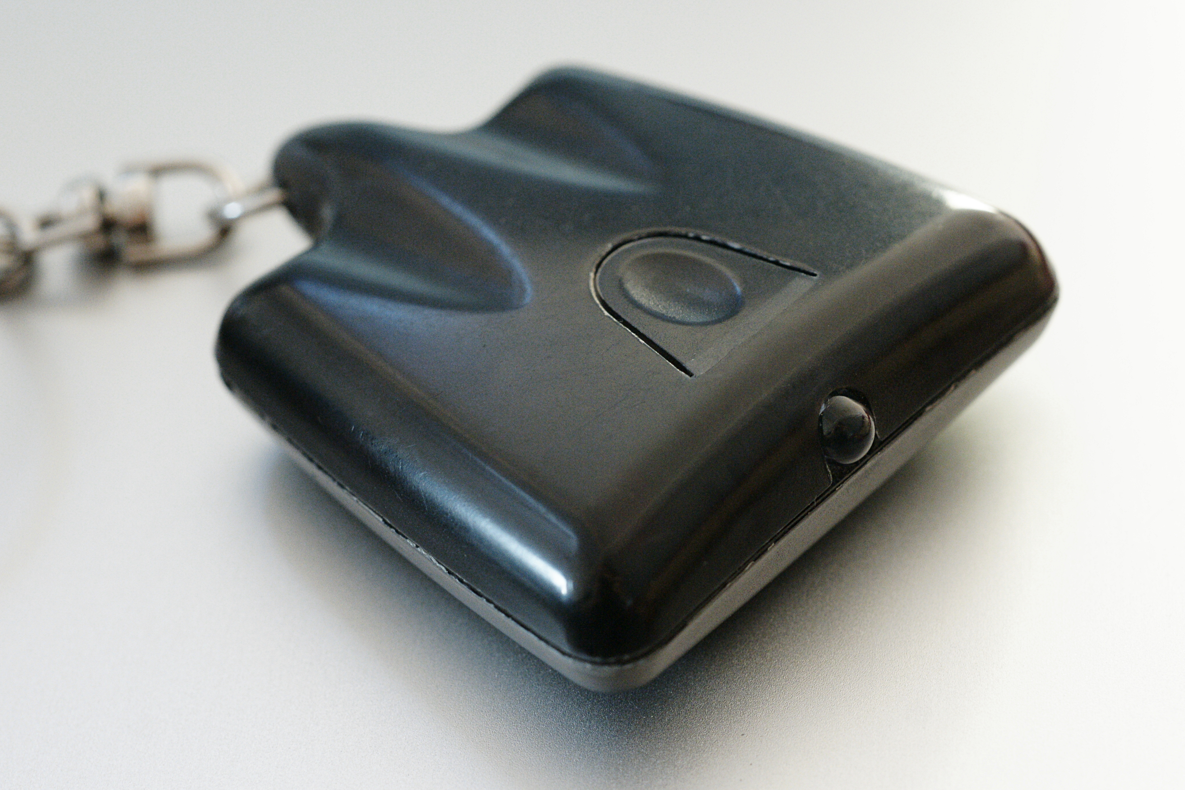 A TV-B-Gone remote to turn off TVs